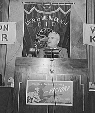 Walter Nash, Minister of New Zealand to the United States, speaking about labor situation in his country, at marine and shipbuilding workers' convention in New York, New York.